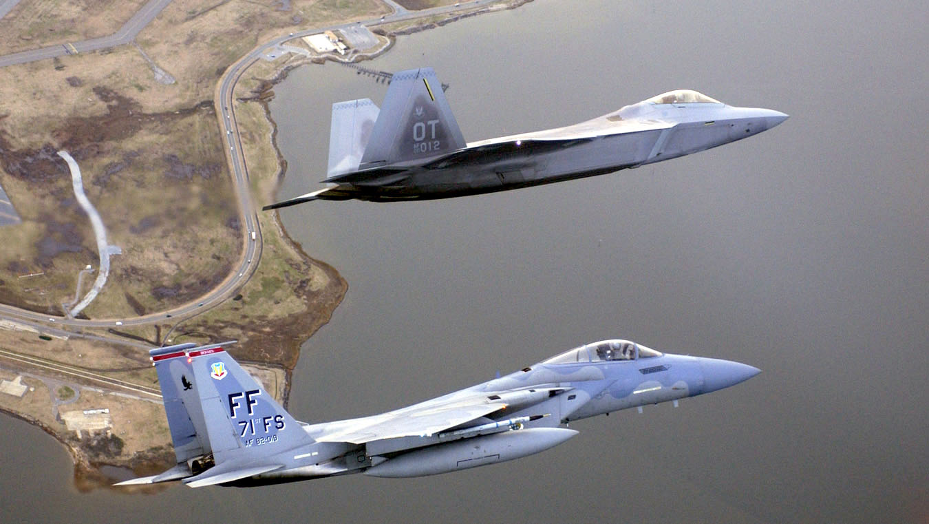 An F/A-22 Raptor and an F-15 Eagle from 1st Fighter Wing fly over Virginia.